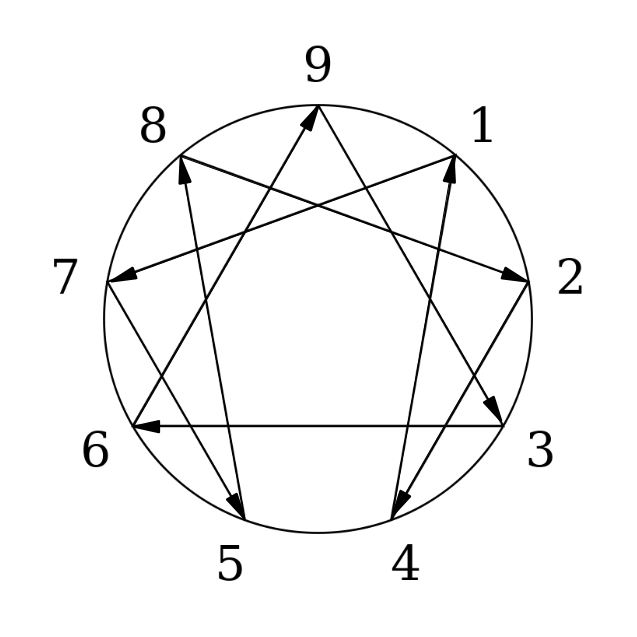 Enneagram symbol with lines of integration (relax/ security points)